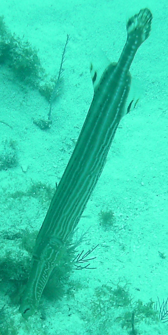 Trumpetfish (Aulostomus maculatus) at Molasses Reef, Florida Keys, March 2008